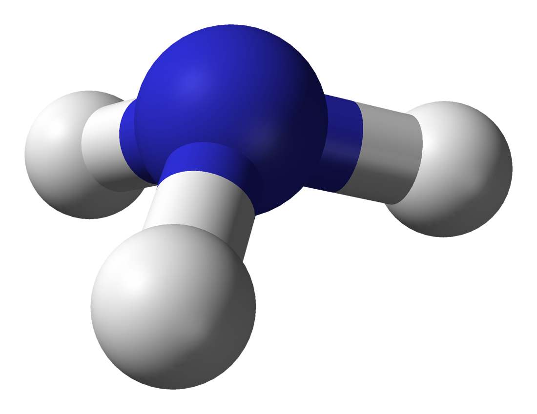 Ball-and-stick model of the ammonia molecule, NH3.